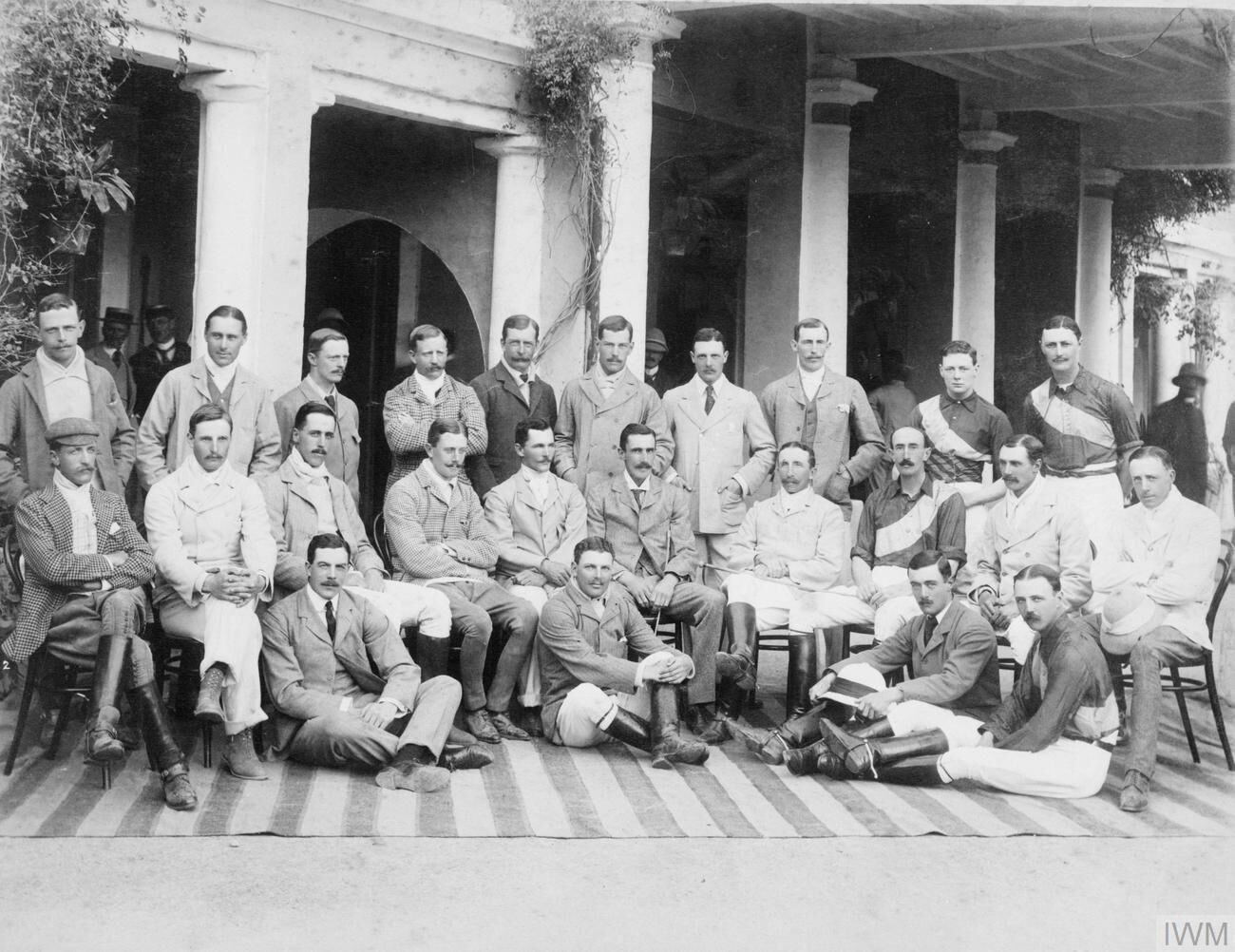 Winston Churchill With the 4th Hussars in India, 1899. Officers involved in the Inter-Regimental Polo Tournament at Meerut, 1899. Winston Churchill is standing second from right.